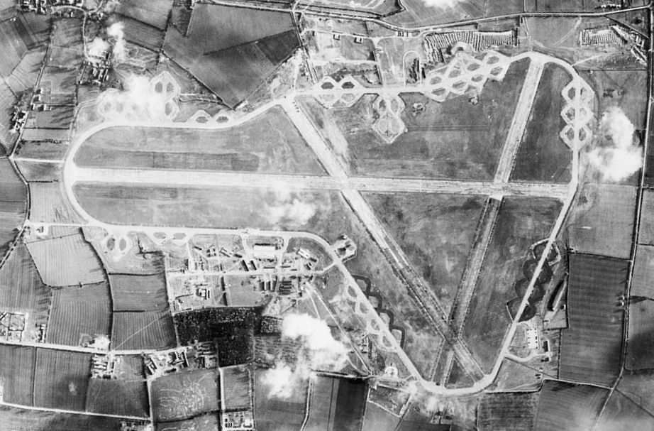 Aerial photograph of Fairford airfield 2 December 1943, the technical site and barrack sites are to the north (bottom left), runway 27 runs from top centre to bottom right and was extended to the current length in the 1950s a few years after this photo was taken. Whelford is shown top left and Kempsford is just out of shot top right. Photograph taken by 7th Photographic Reconnaissance Group, sortie number US/7PH/GP/LOC93. English Heritage (USAAF Photography). Locations